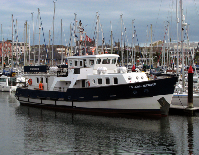 The T/S 'John Jerwood' at Bangor Sea Cadets training vessel 'John Jerwood' at Bangor Marina. Built for the organisation thanks to a grant of £1,216,700 from the Jerwood Foundation, the 23.5 metre long boat is equipped to accommodate 12 cadets and eight officers (or senior rates).